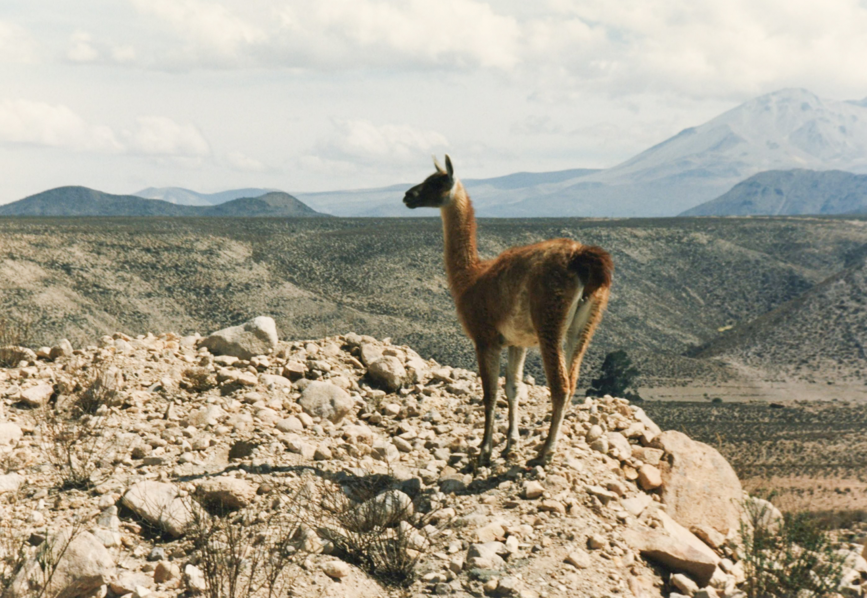 Guanaco in Lauca National Park, Chile